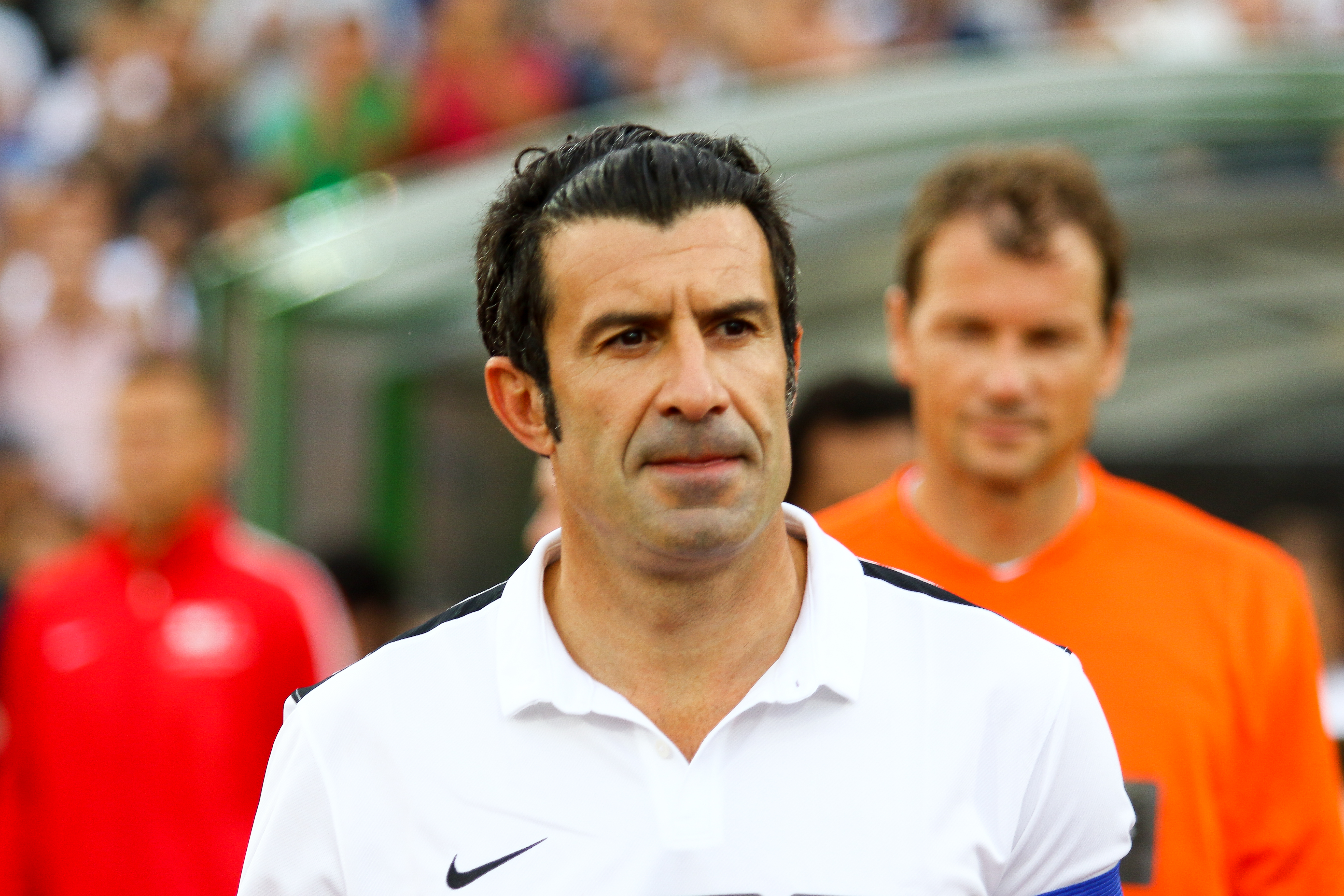 Luís Filipe Madeira Caeiro Figo, OIH ( born 4 November 1972) is a retired Portuguese footballer. He played as a midfielder for Sporting CP, Barcelona, Real Madrid and Internazionale before retiring on 31 May 2009. He won 127 caps for the Portugal national team, a record at the time but later broken by Cristiano Ronaldo.